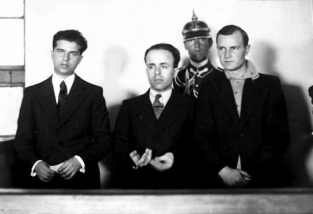 Nicadorii